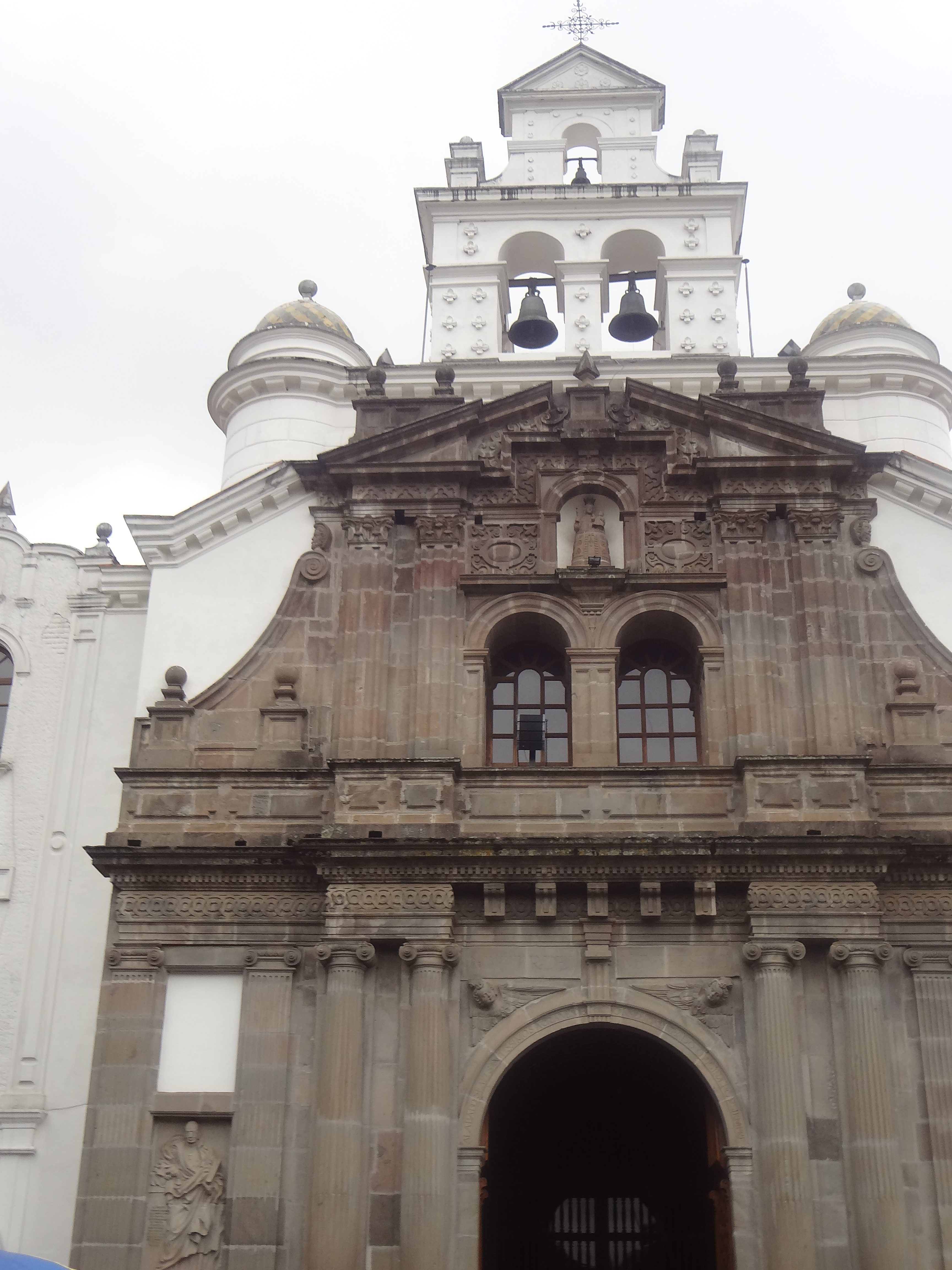 Photography by David Adam Kess